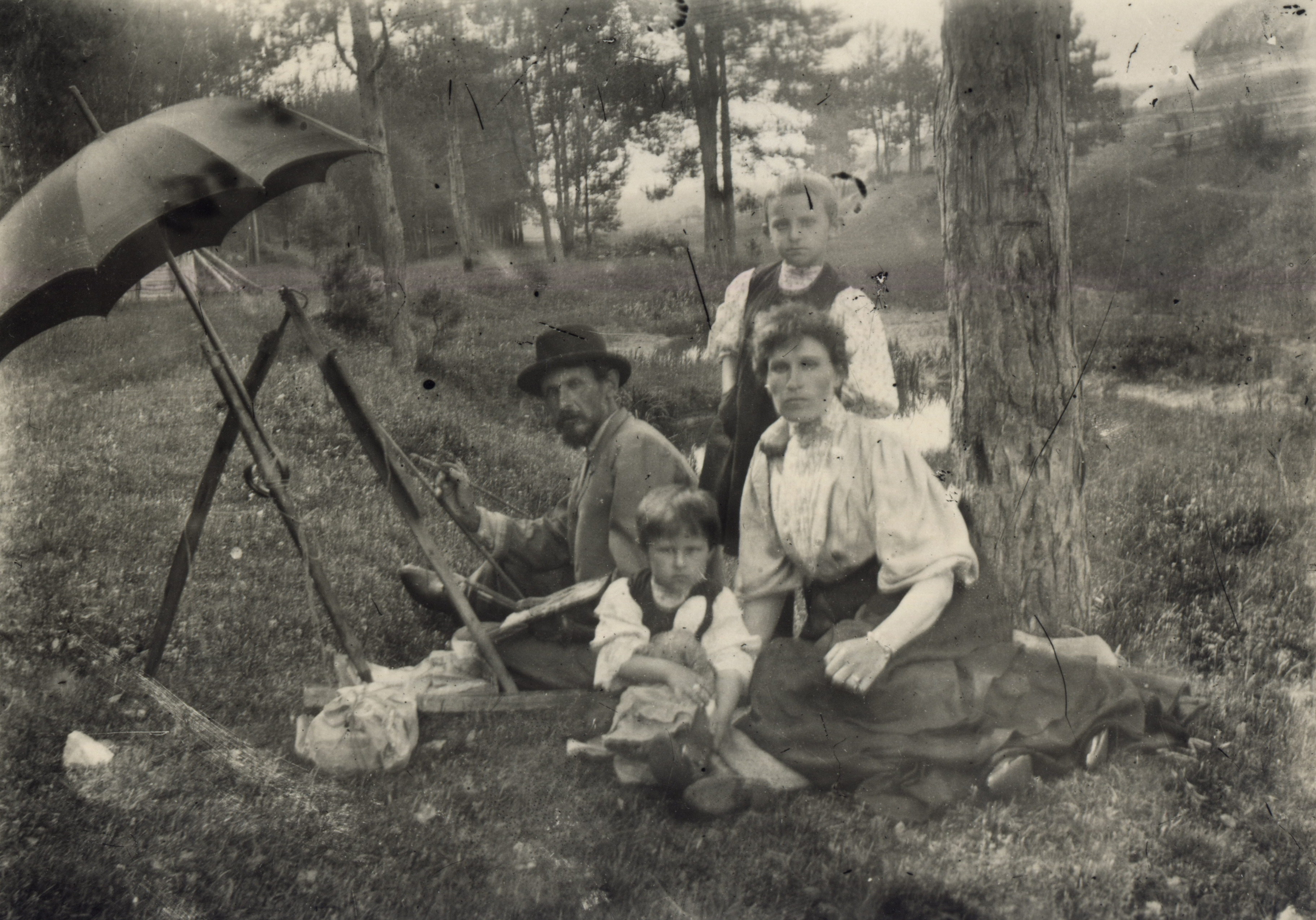 Celebrovskiy with wife and children